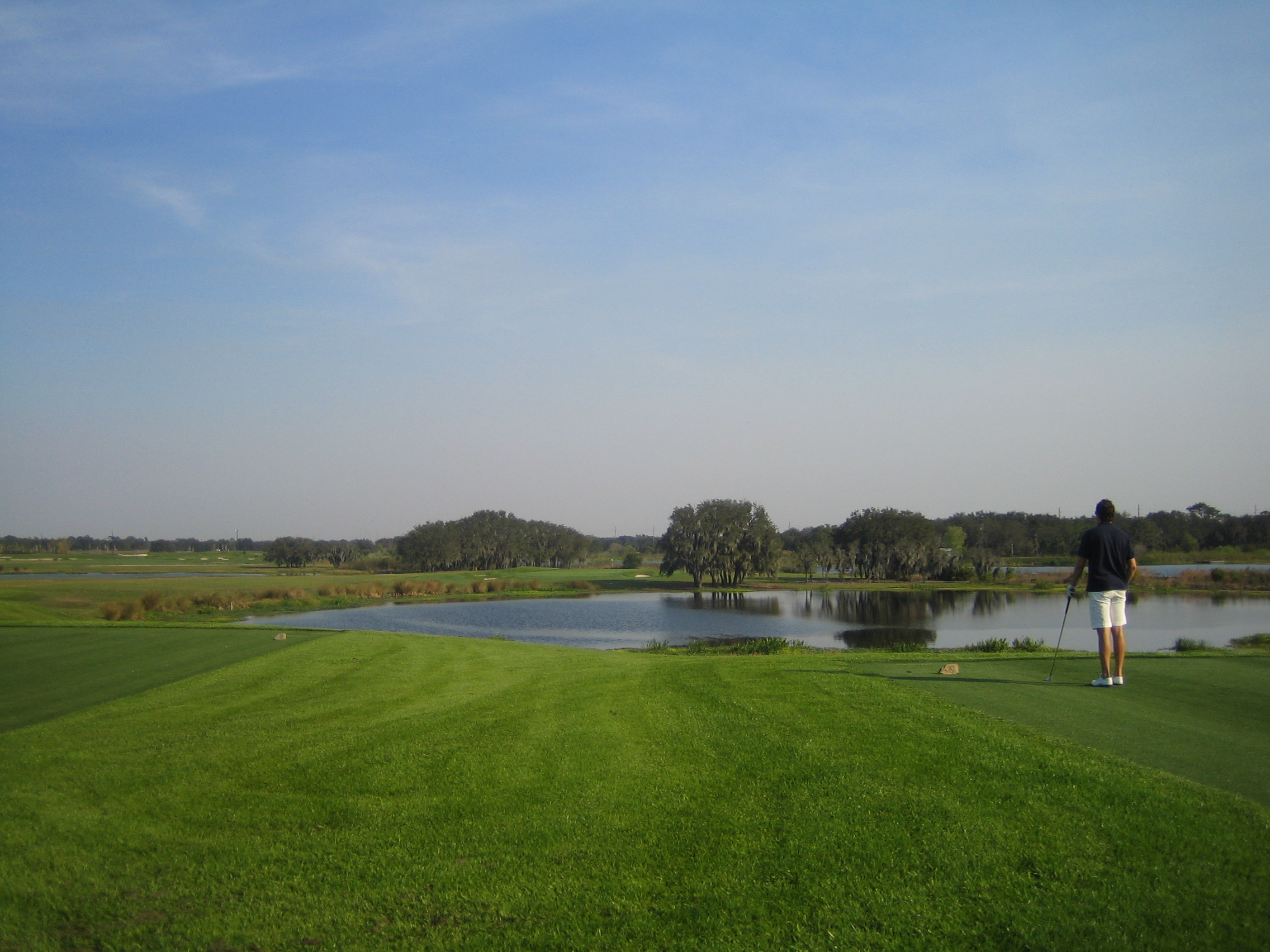 Par 3 hole on the International Course of ChampionsGate Golf Club in Davenport, Florida